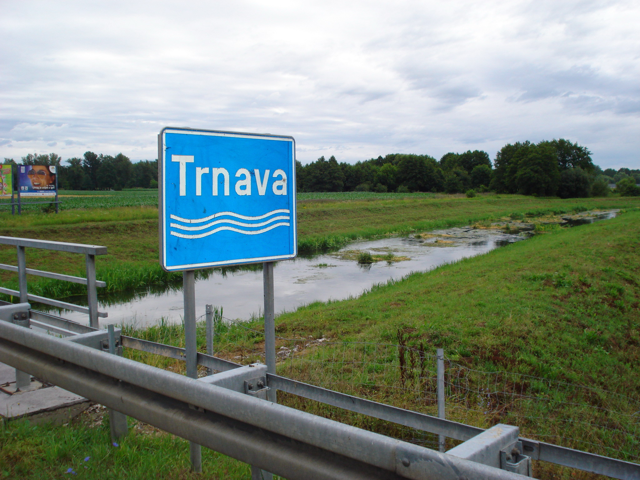 Trnava River, a right tributary to Mura, at Goričan (Medjimurje County, Croatia) - name sign